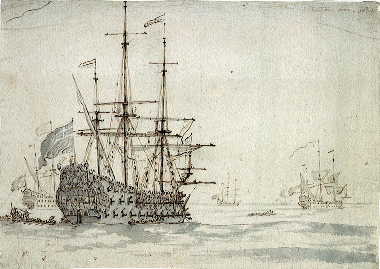 The 'Royal Oak' at anchor On the left, a near starboard quarter view of the ‘Royal Oak’ at anchor. Her main topmasthead is not shown, but there is the tail of a pendant shown in the top left corner. Several other ships are in the background. It is inscribed ‘rooijal oock 1674’. This drawing is by the Younger, signed ‘W.V.VJ’ in pencil. The work is in pen, brown ink and grey wash over slight preliminary pencil work. Some of the wash may have been added by a later hand. unavailable